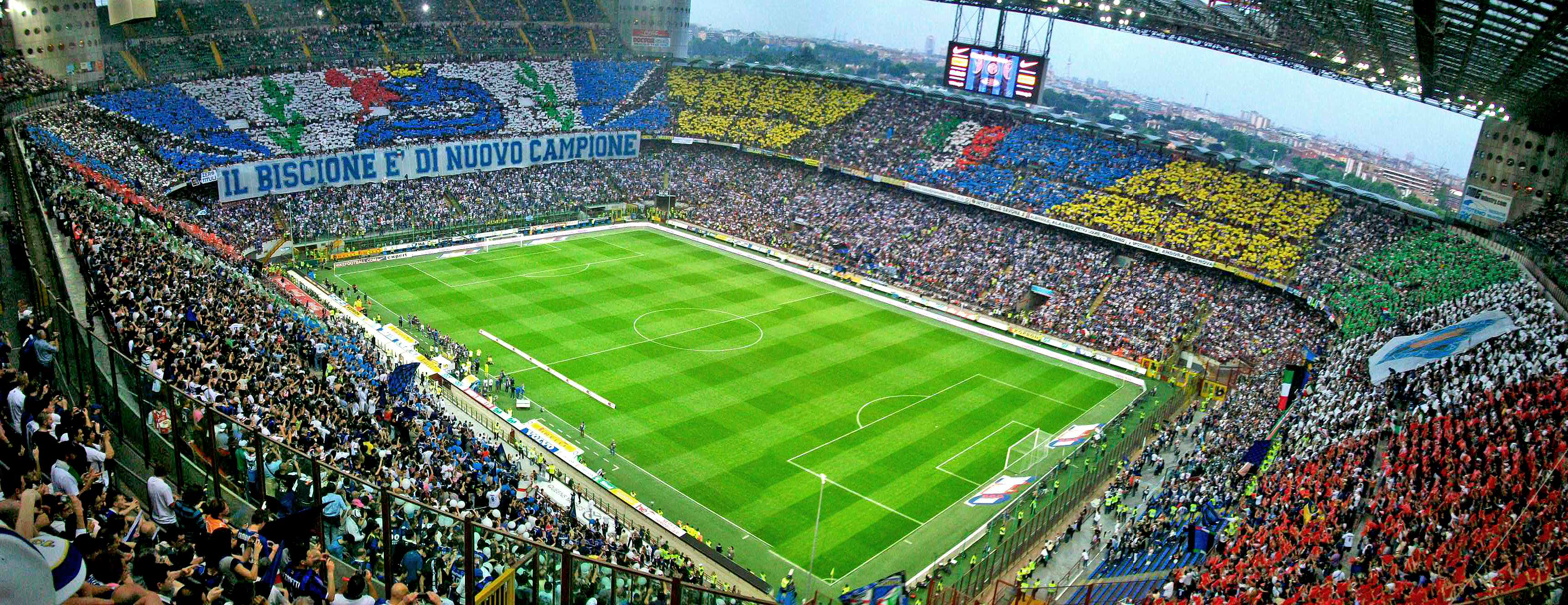 Panoramic view of Giuseppe Meazza Stadium (San Siro) before the kick-off of FC Internazionale Milano match.